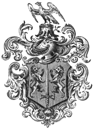 Arms of the Carroll family of Maryland, United States of America